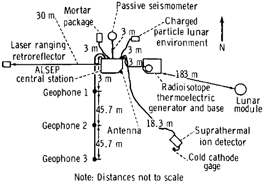 Arangement for Apollo 14's ALSEP.